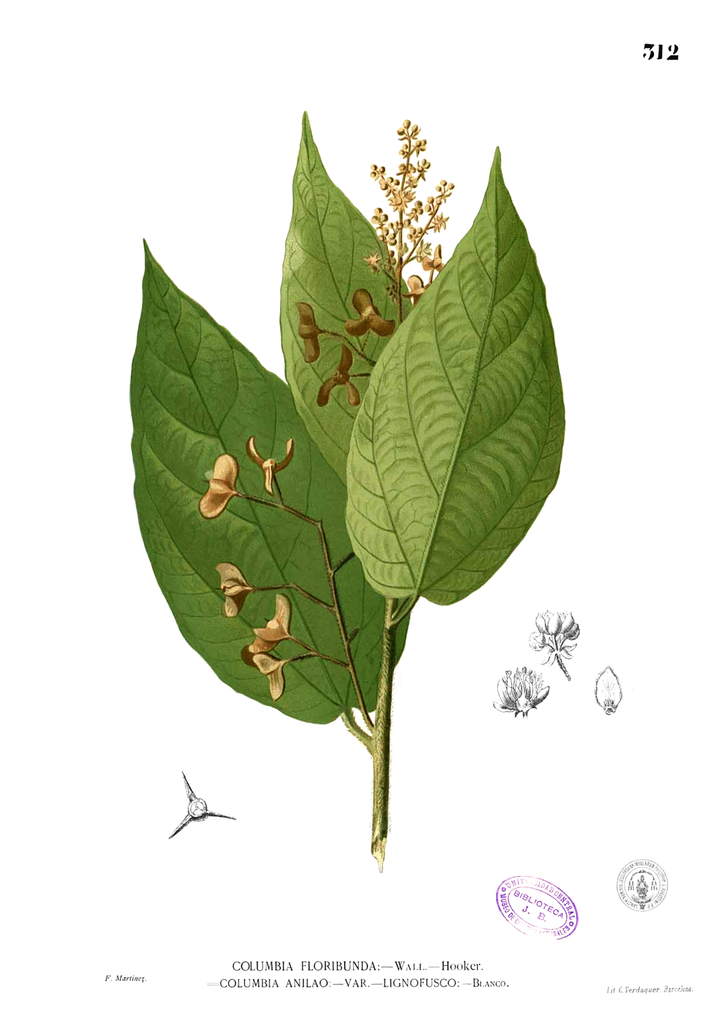 Plate from book